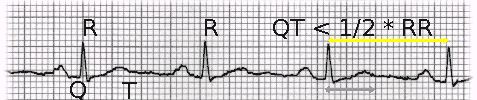 The qt-time is normal, when its less then half the rr-time. The ecg was taken from Image:EKGI.png. The rest was done by the user himself. User:rho